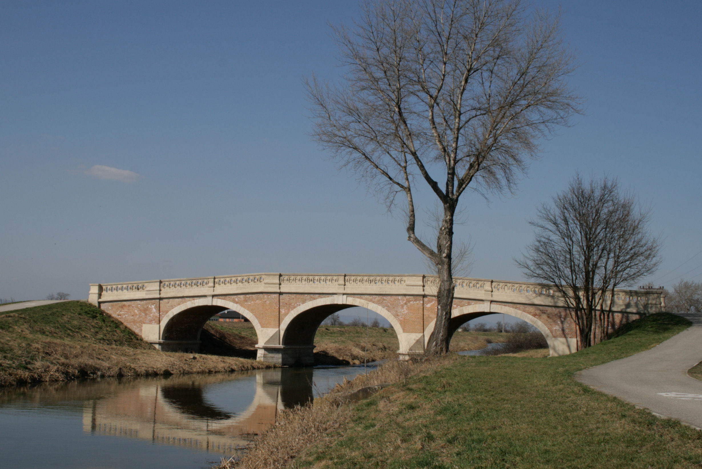 Bridge from 1904 in Kráľová pri Senci (Senec district, Slovak Republic)